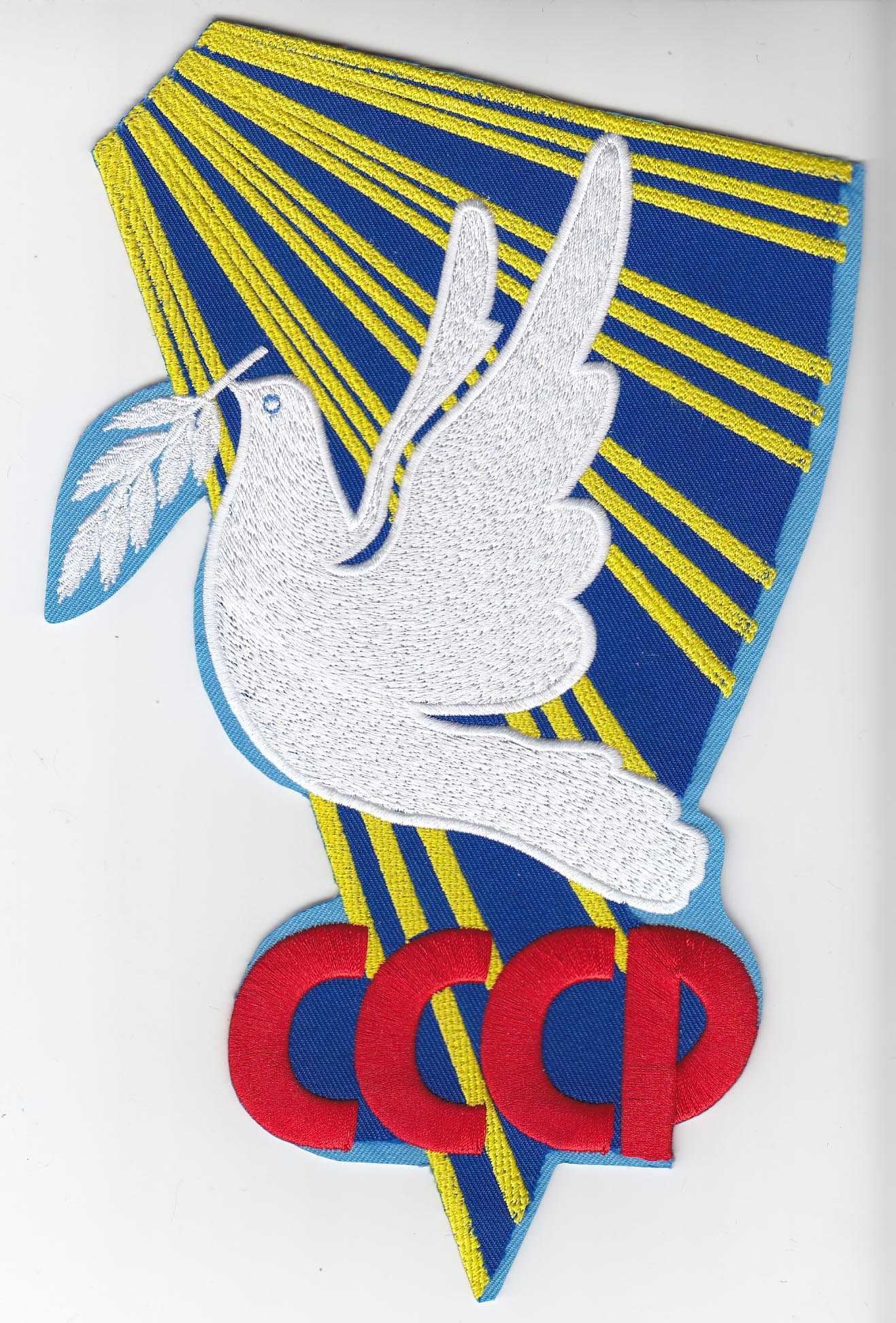 Patch from the Vostok 6 mission. Image, recreation and permission to use on Wikimedia by Luc van den Abeelen (email).